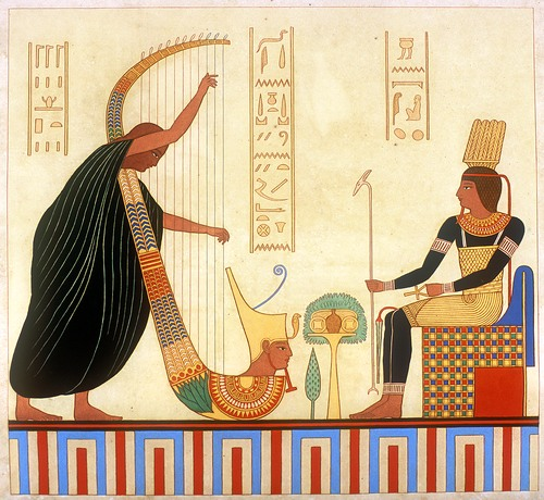 Harper playing before Onuris-Shu [and Ra-Horakhty]. Scene from tomb of Ramses III. (KV11)